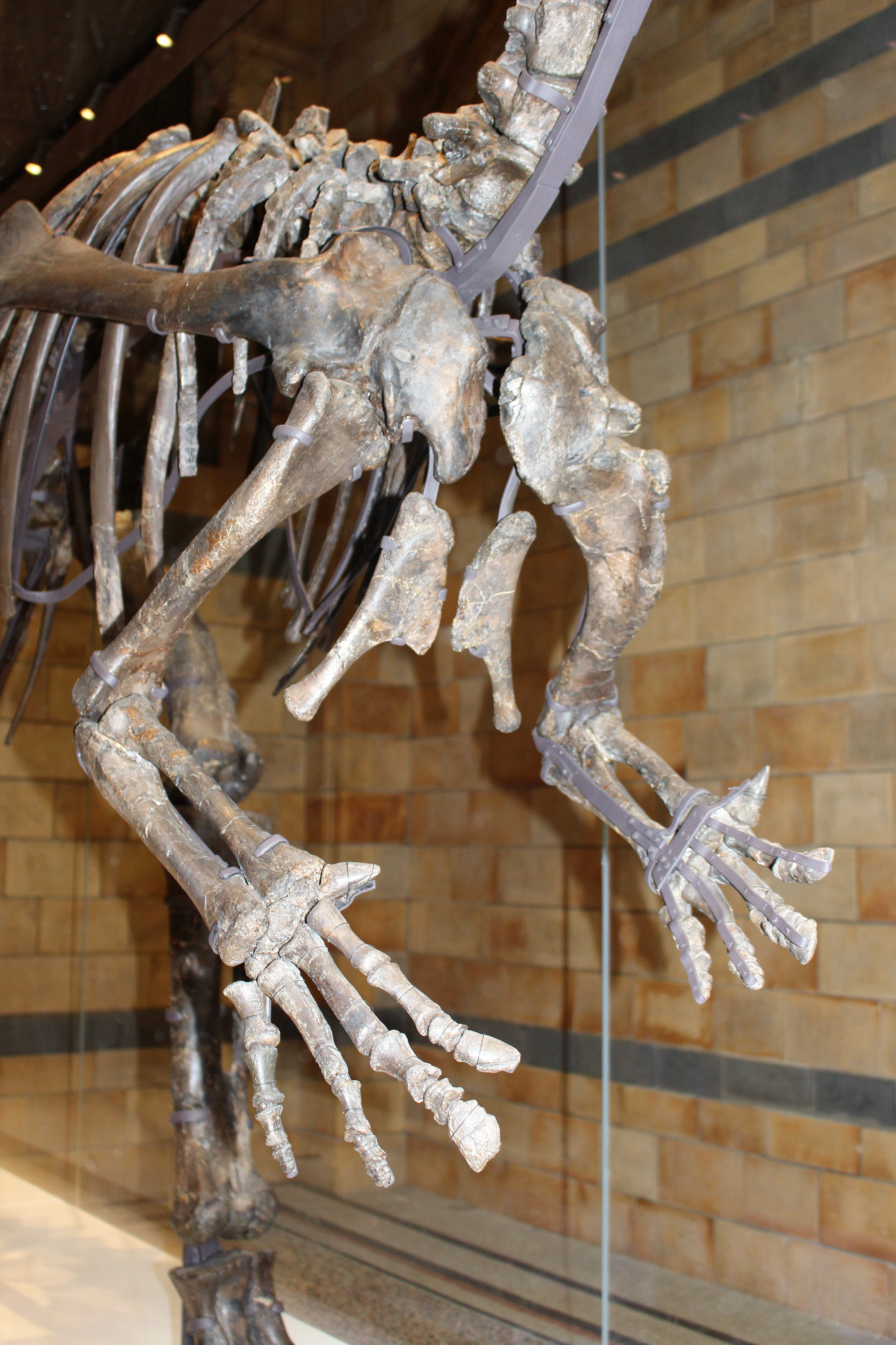 The front legs of the Mantellisaurus atherfieldensis at the Natural History Museum in London, England. Discovered on the Isle of Wight in 1914, this is one of the most complete dinosaurs ever found in the UK. This dinosaur species was formerly known as an Iguanodon. The name was changed in 2007 to honour the great palaeontologist Gideon Mantell.